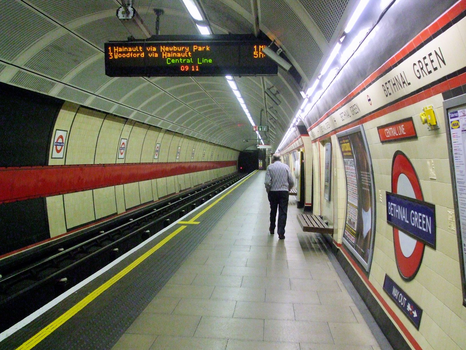 Bethnal Green tube station eastbound platform looking east